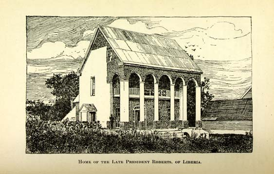 Home of the late president Roberts, of Liberia